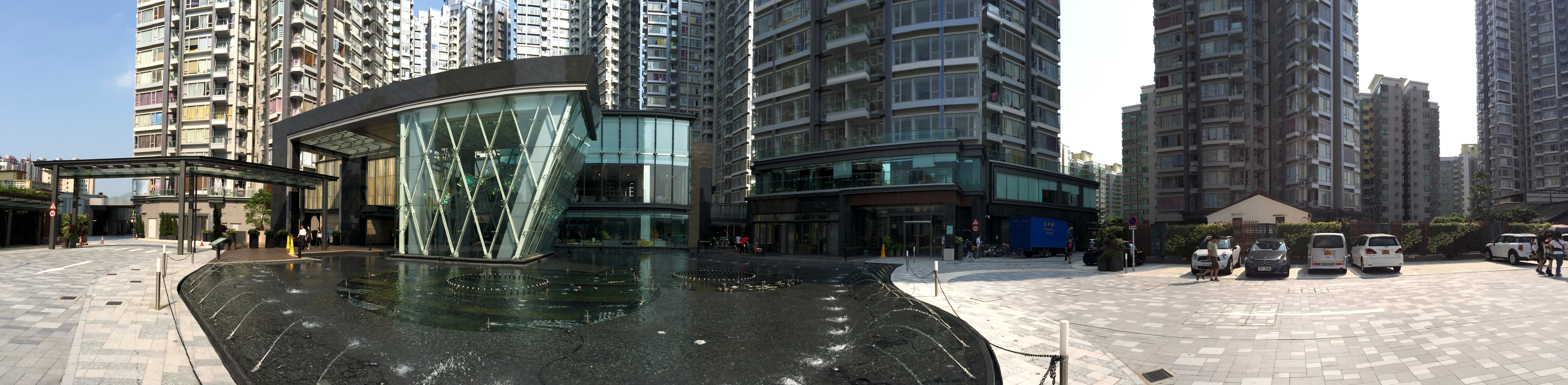 The Reach Pano